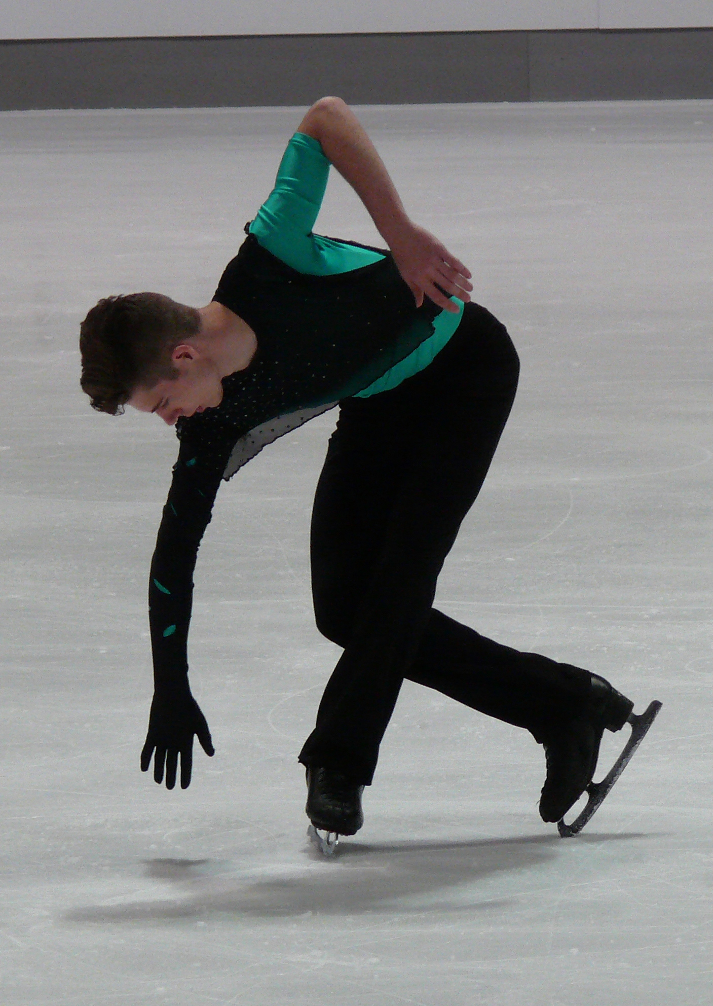 Paul Fentz (GER) at his short program at the Nebelhorn Trophy 2012 in Oberstdorf/Germany.